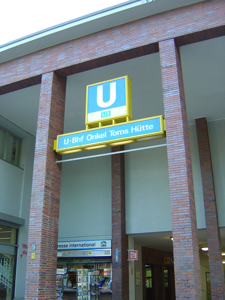 The entrance of the underground station Onkel Toms Hütte, Berlin, Germany